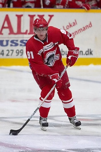 Mr. Juha Riihijärvi in action.